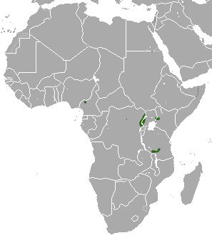 Stuhlmann's Golden Mole (Chrysochloris stuhlmanni) range